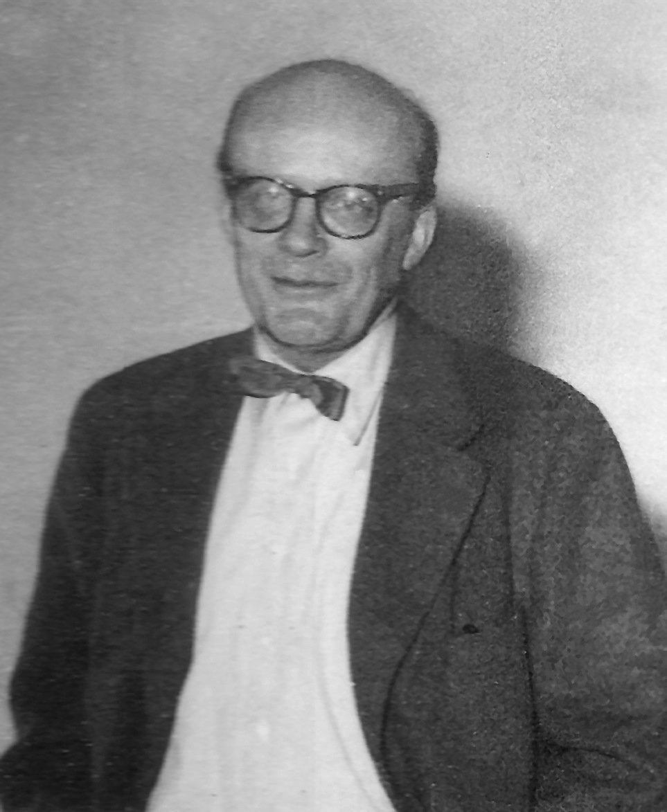 Portrait Franz Rickert